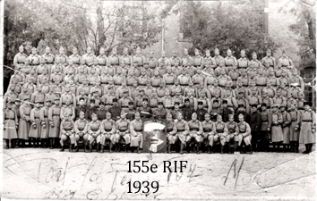 An extremly rare picture of the 155th French " RIF" Fortress Infantery Regiment "